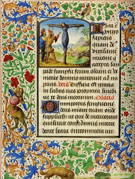 Saint Wilgeforte